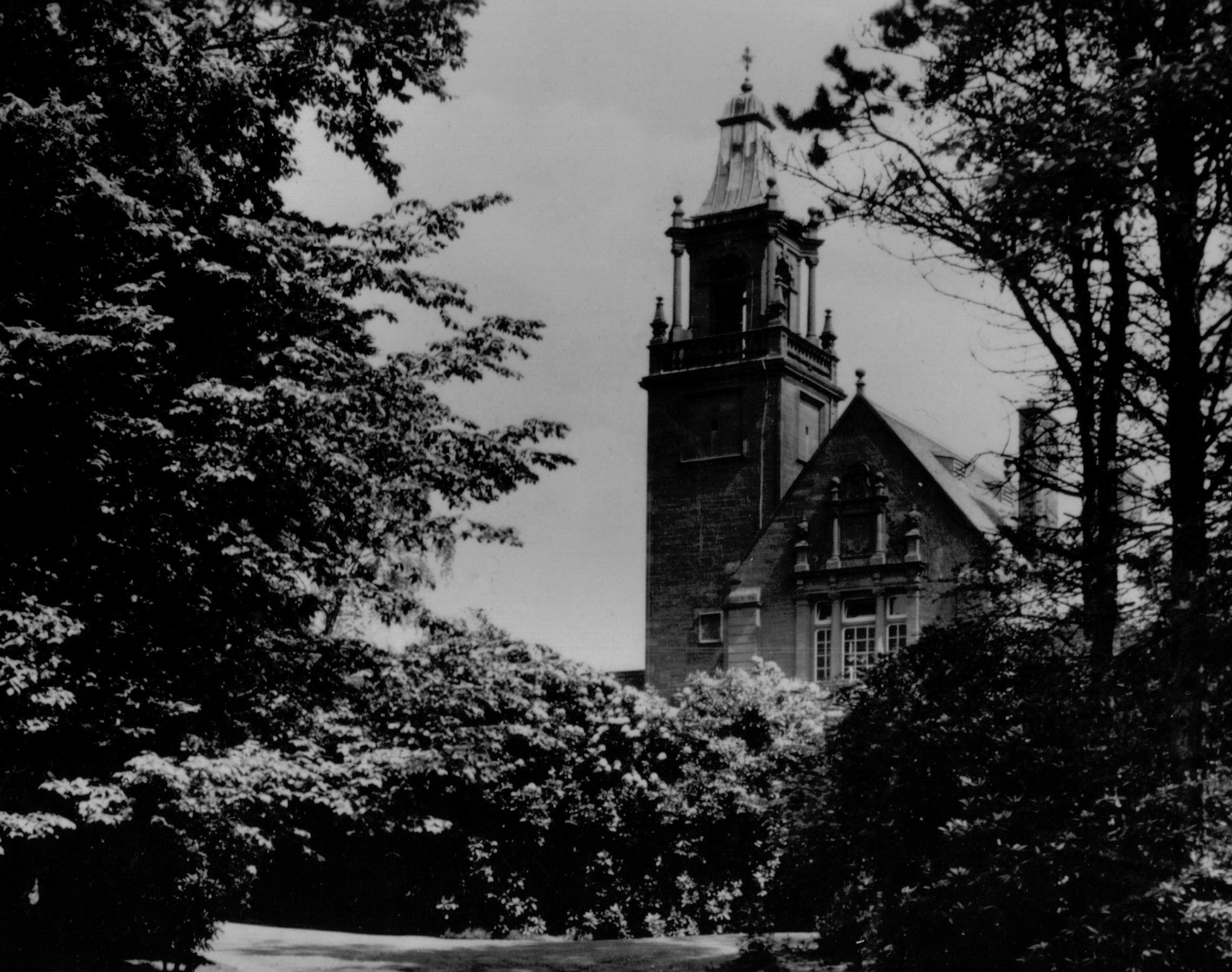 Spier's School on Barmmil Road near Beith in North Ayrshire, Scotland